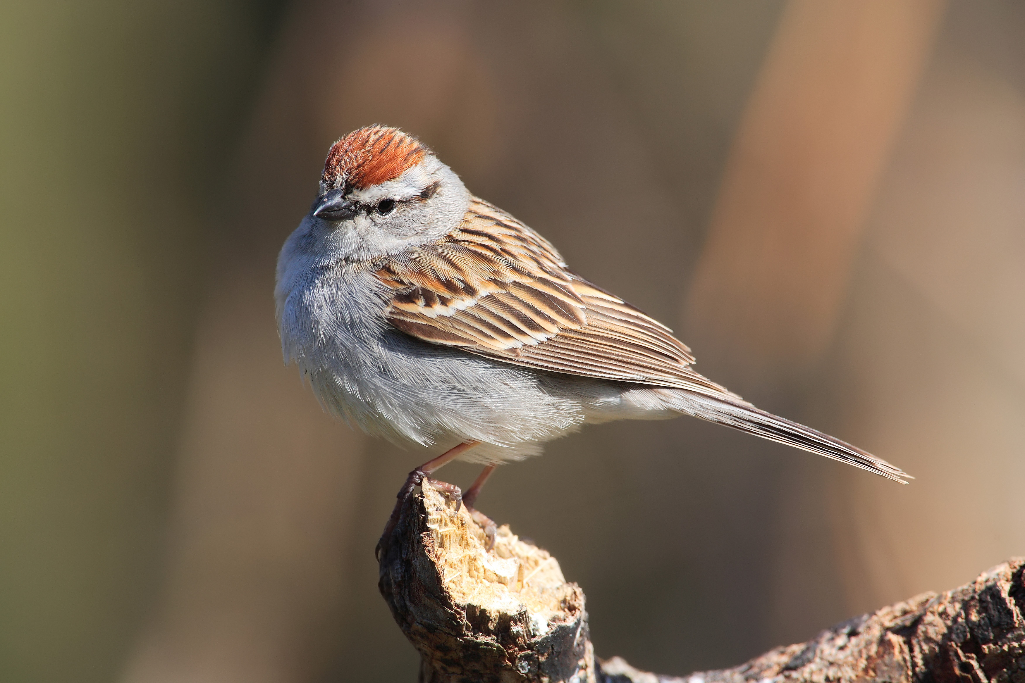 A Chipping Sparrow at the feeders, behind the visitor centre, Rondeau Provincial Park, Ontario, Canada.